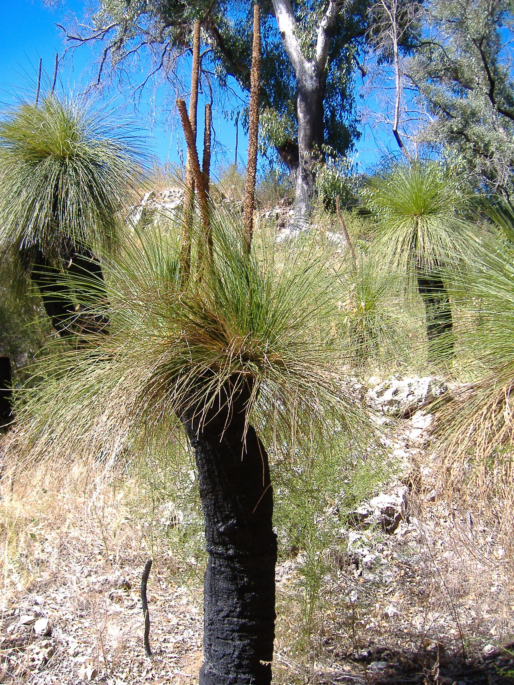 Xanthorrhoea in Yanchep National Park, Western Australia